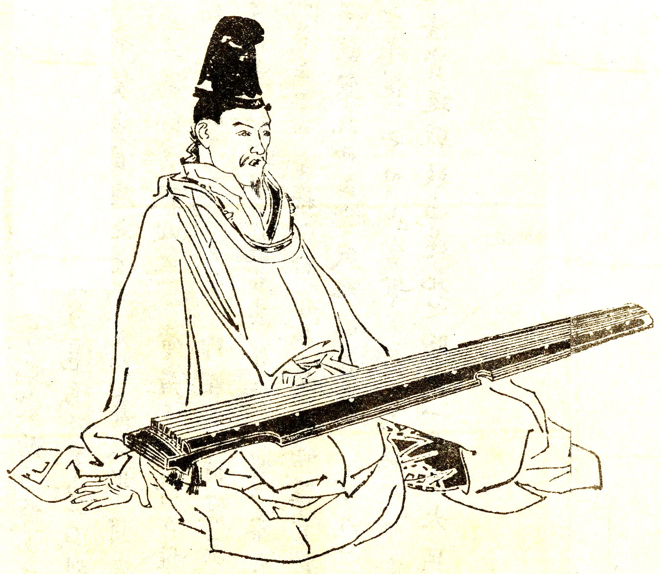 Toin Saneyo(洞院實世) was a court noble and politician of Japan in the latter period of Kamakura era.This picture was drawn by Kikuchi Yosai（菊池容斎） who was a painter in Japan.